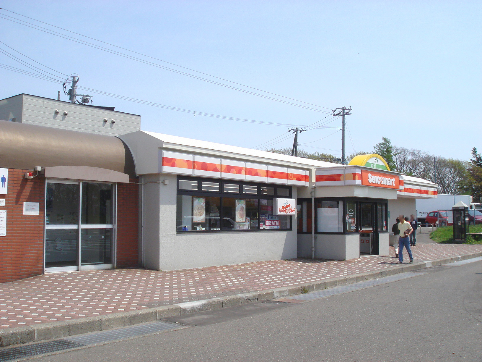 Hokkaidō Expressway Nopporo Parking Area for Sapporo